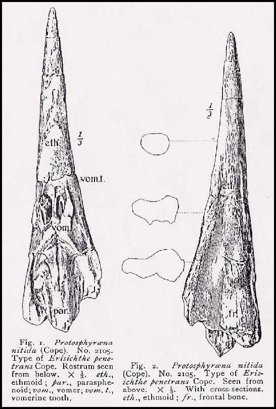 This image was taken from Hay, O. P. 1903. "On certain genera and species of of North American Cretaceous Actinopterous Fishes. Bulletin of the American Museum of Natural History 19:1-95. The artist is unknown. This image was originally published in the United States before 1923 and is therefore in the public domain.